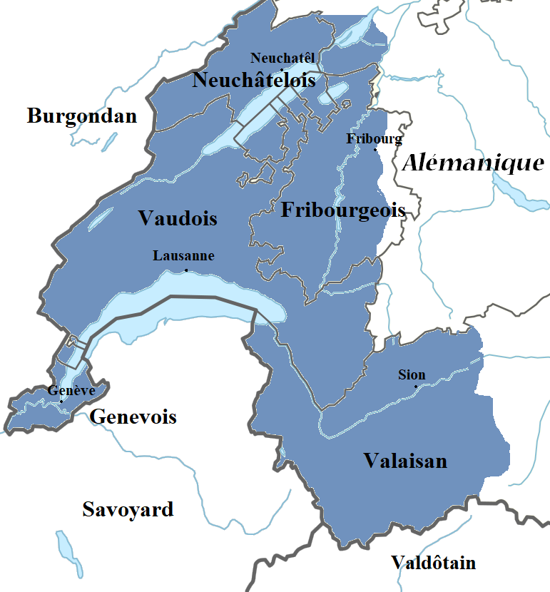 Dialects of arpitan language in Switzerland.